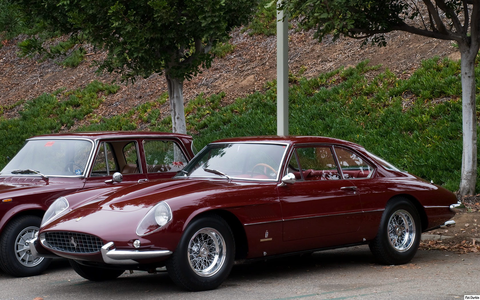 1963 Ferrari 400 Superamerica Series II LWB. This is s/n 5115SA, first owned by Nelson Rockefeller (1908–79).[1]